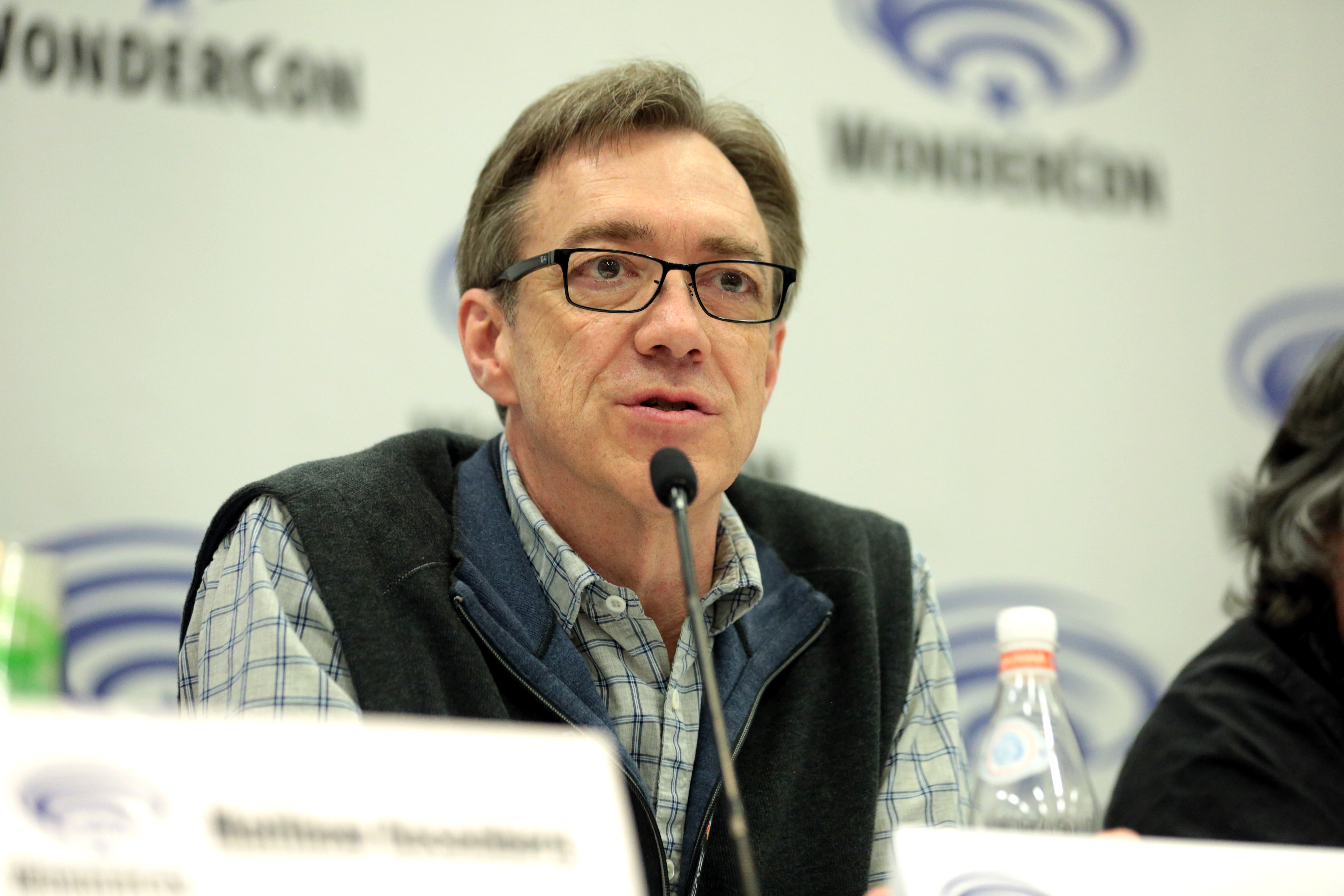 Dan Jurgens speaking at the 2018 WonderCon at the Anaheim Convention Center in Anaheim, California.